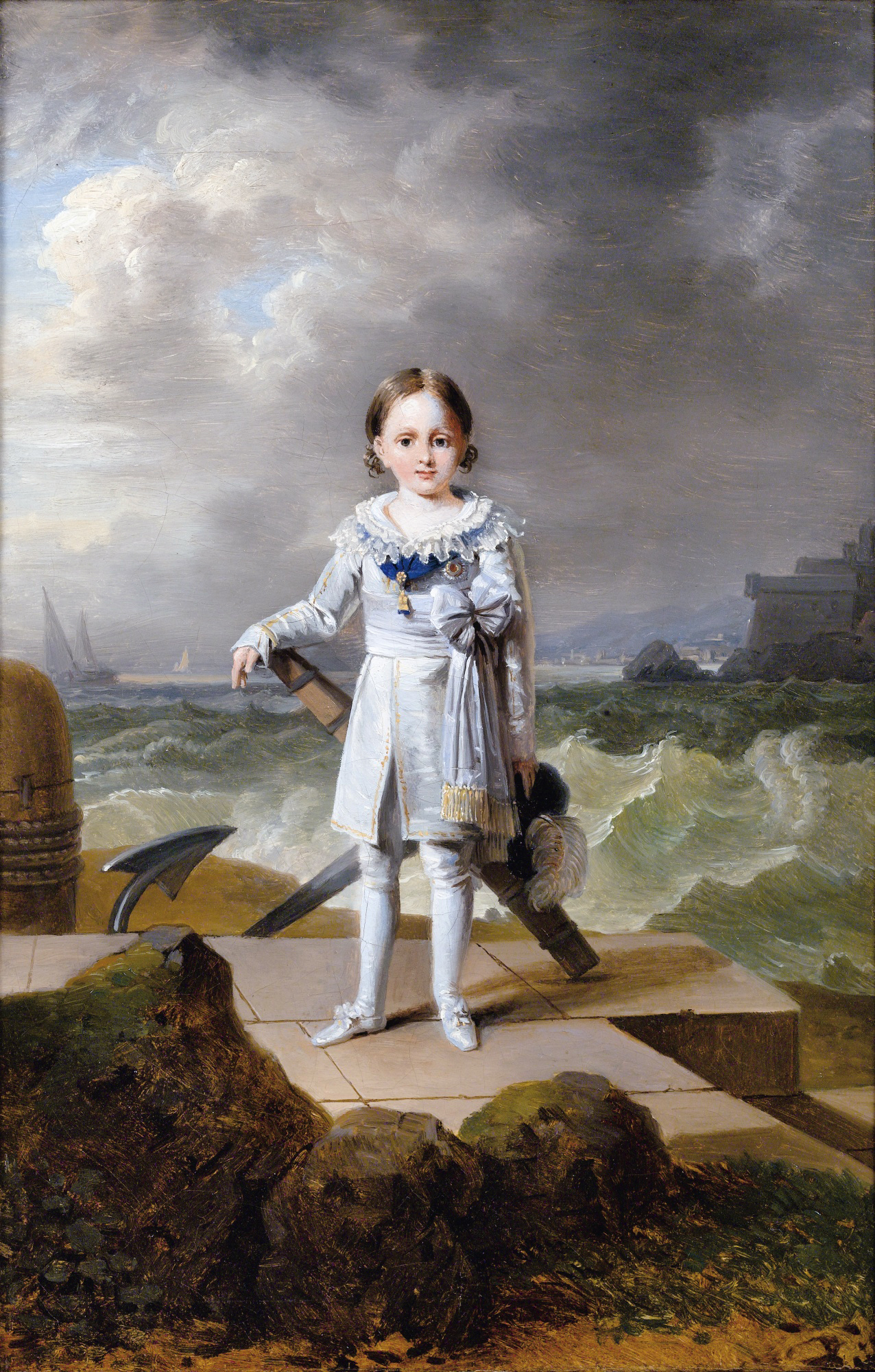 Étude préparatoire de Napoléon-Louis Bonaparte (1804-1831), Prince français et altesse impériale, Prince Royal de Hollande en 1806